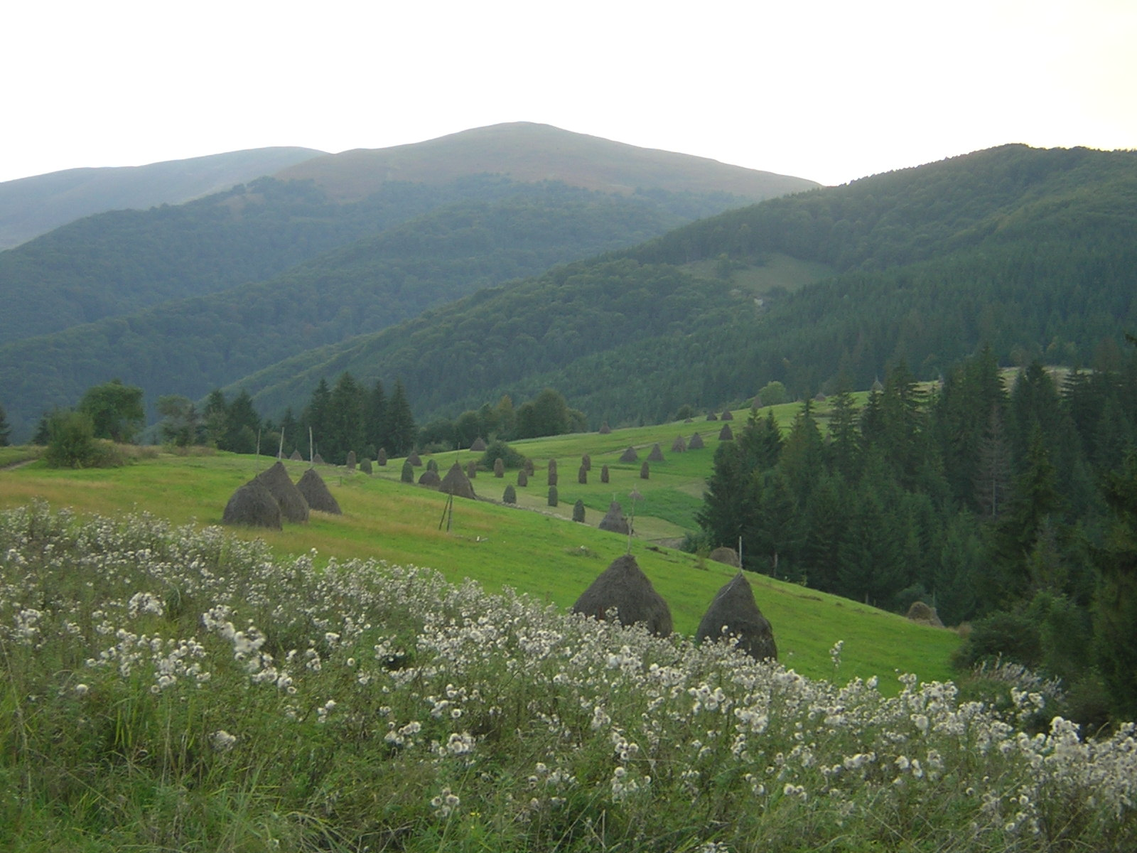 Meadows near Gukliviy with view of Polonina Borzha, Zakarpattia Oblast, Ukraine.